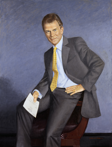 Official Senate portrait of former Majority Leader Tom Daschle.